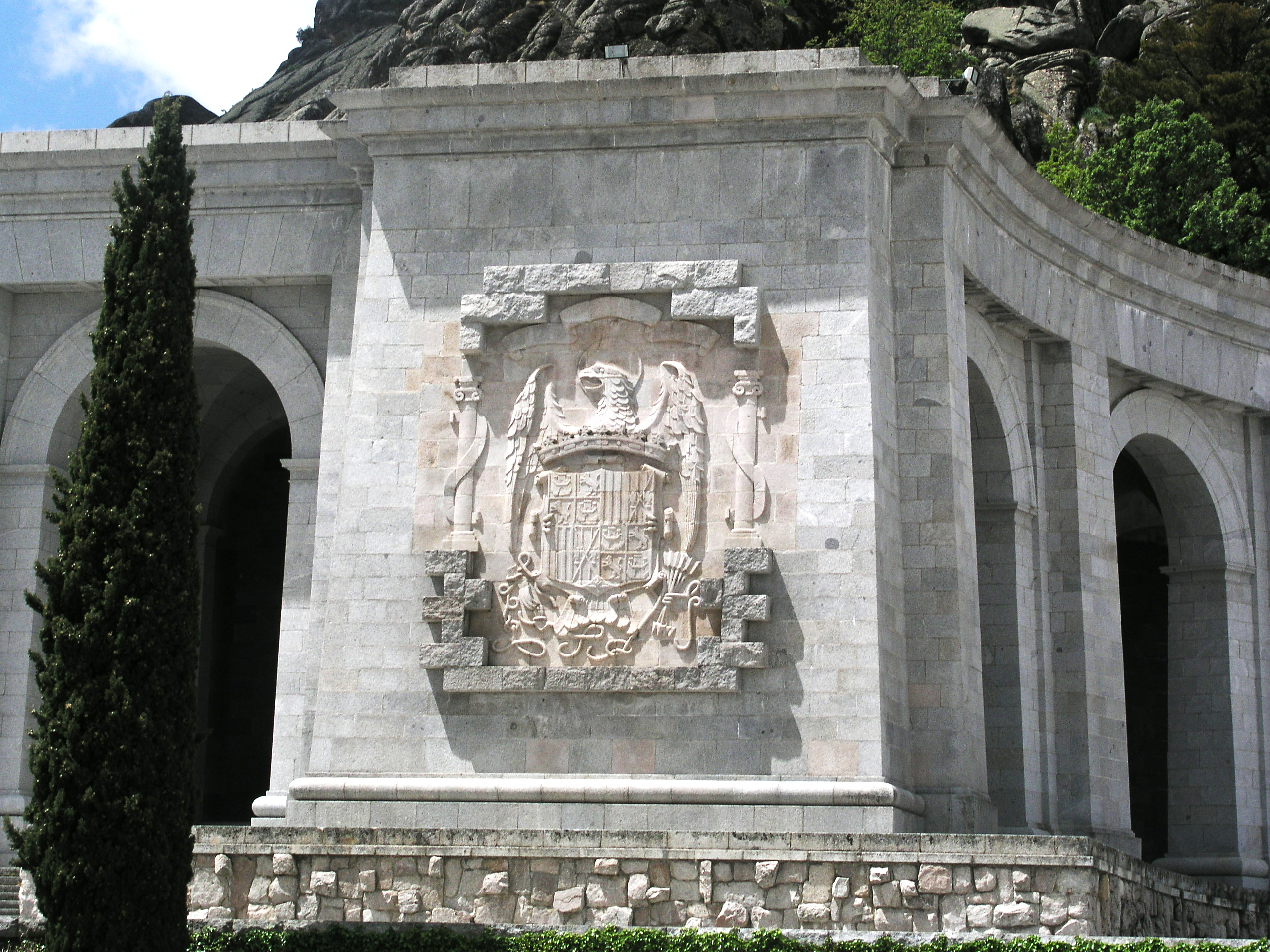 Valle de Los Caidos, Madrid, Spain. Coat, left wing.